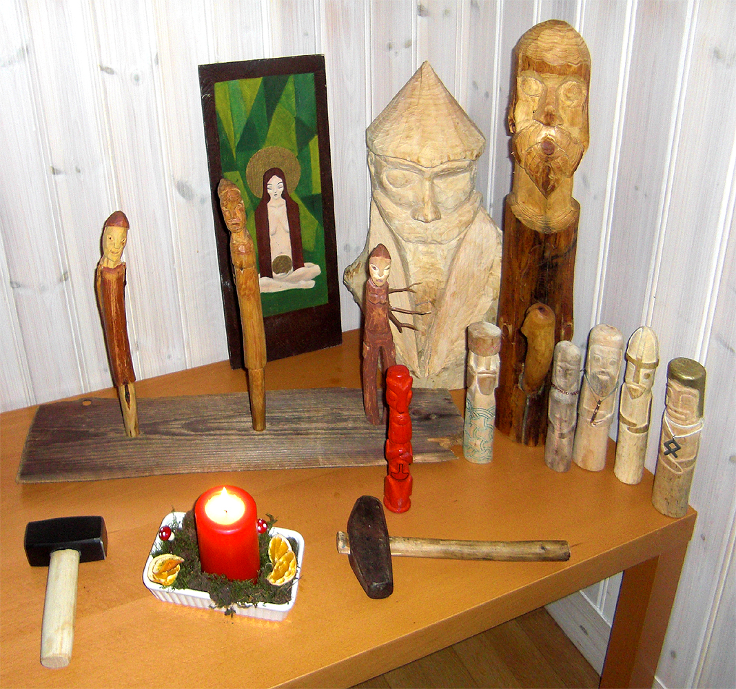 Forn Sed: Norse cult images at a Yule Feast. The picture shows a table with assembled Norse cult images at a Yule Feast held by the two Gothenburg kindreds Godthiod and UrNaud at 19 December 2009 at Hisingen Island, Gothenburg, Västra Götaland, Sweden. In the back row there are a painting depicting the sun-goddess Sol or Sunna, and two wooden carvings of Odin (Óðinn) and Frey (Freyr). In the middle row there are the three Norns (Urðr, Verðandi, and Skuld) and five smaller carvings (the first of the five is actually the Slavic god Svetovid with his four faces). In the front row there is a red-painted carving of the thunder-god Thor (Þórr). In front of the cult images are a red candle and two ceremonial hammers. Godthiod was a kindred within the Swedish Asatru Assembly (now called Forn Sed Sweden) and most participants was (or are) members of the Swedish Asatru Assembly too.